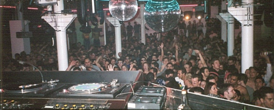 A shot of a packed dance floor from the DJ booth.